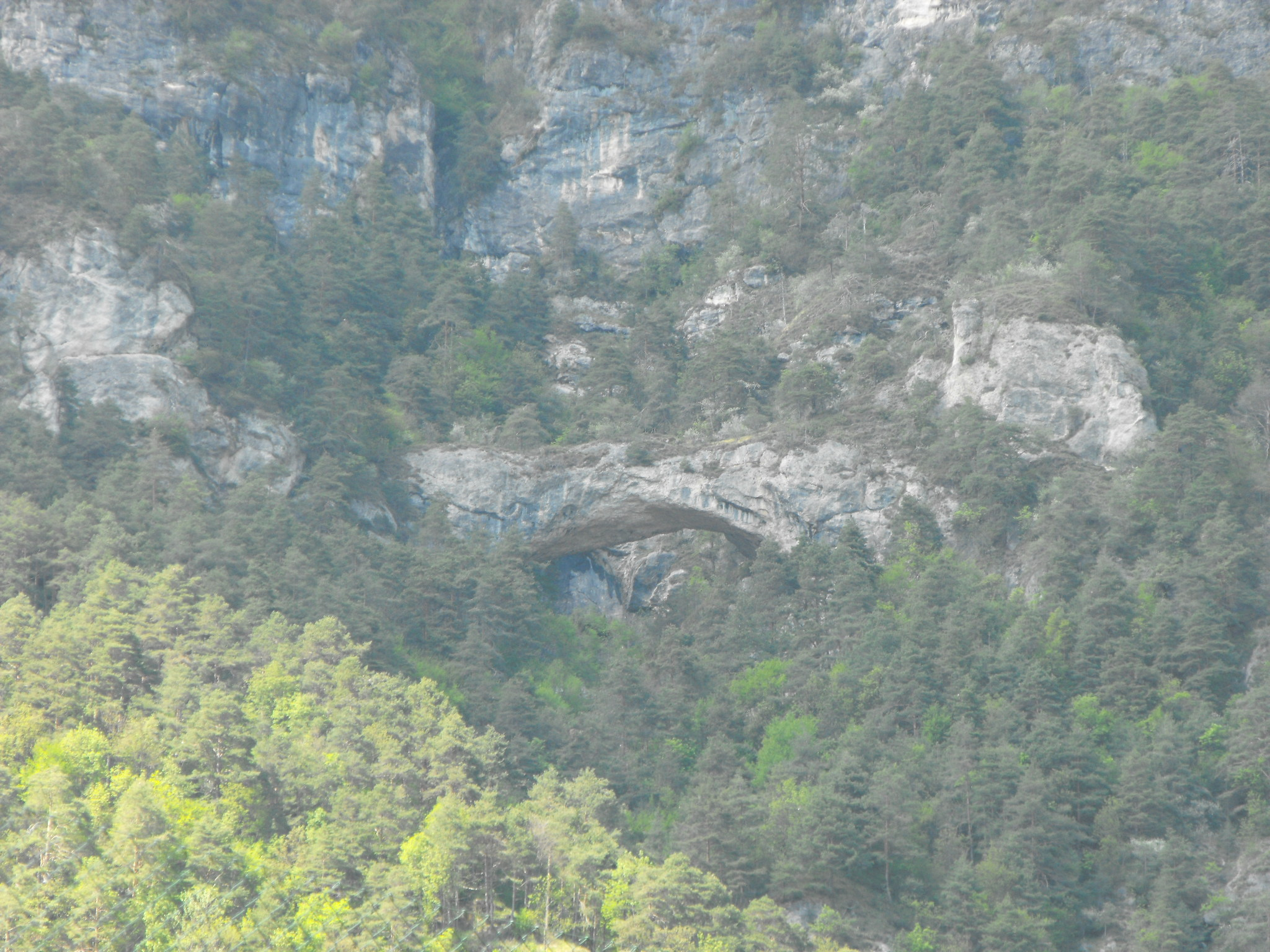 The "Orc's Bridge", natural monument in Ospedaletto, Trentino-South Tirol (Italy)